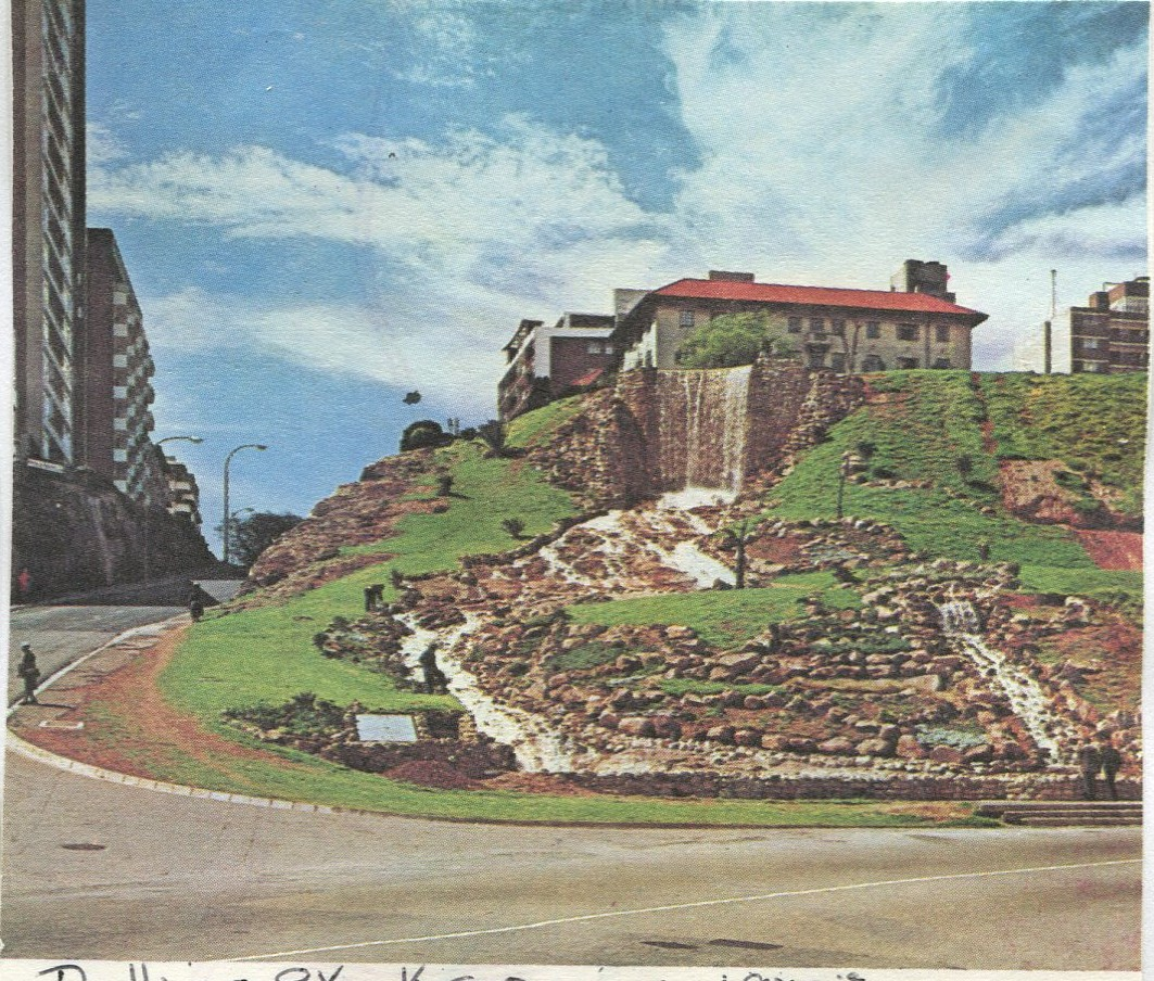 The Pullinger Kop was named after Edward Pullinger a mining magnate who built his home at the top of the hill in 1890. This is part of the works from the JHF given to the joburgpedia and Wikimedia projects.